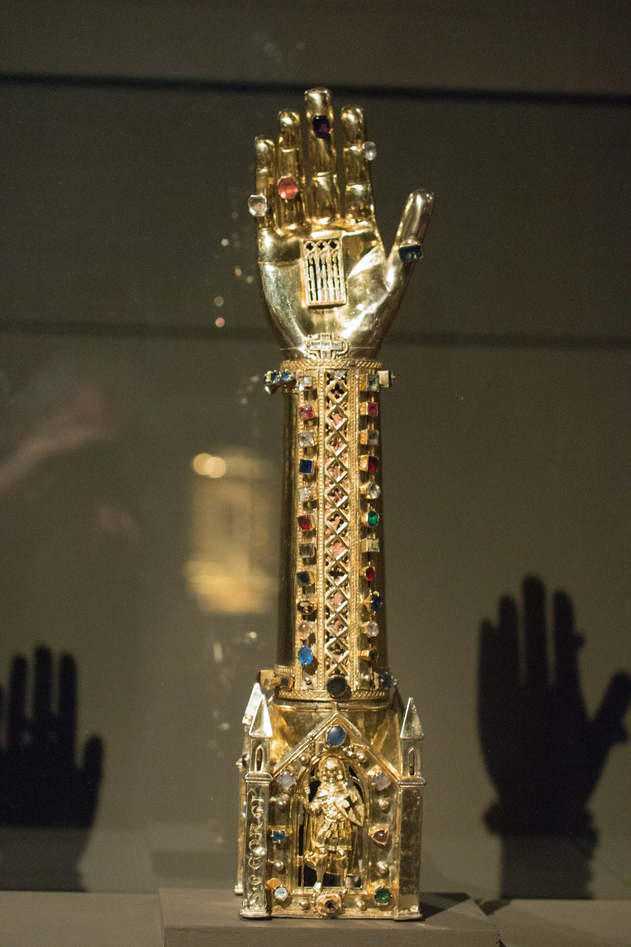 The St George Arm-shaped reliquary from the Convent of St George at Prague Castle. Il-de-France or Meuse Valley or Lower Rhineland, 1270s; modifications Prague ca 1365. Gilded silver, saphires, rubies, emeralds, rock crystal, silver pearls, Oriental fabric, bone (relic). Prague, The Metropolitan Chapter of St Vitus, Inv. No. K 19.